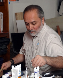 Alberto Goméz Goméz at work in his Central Florida studio